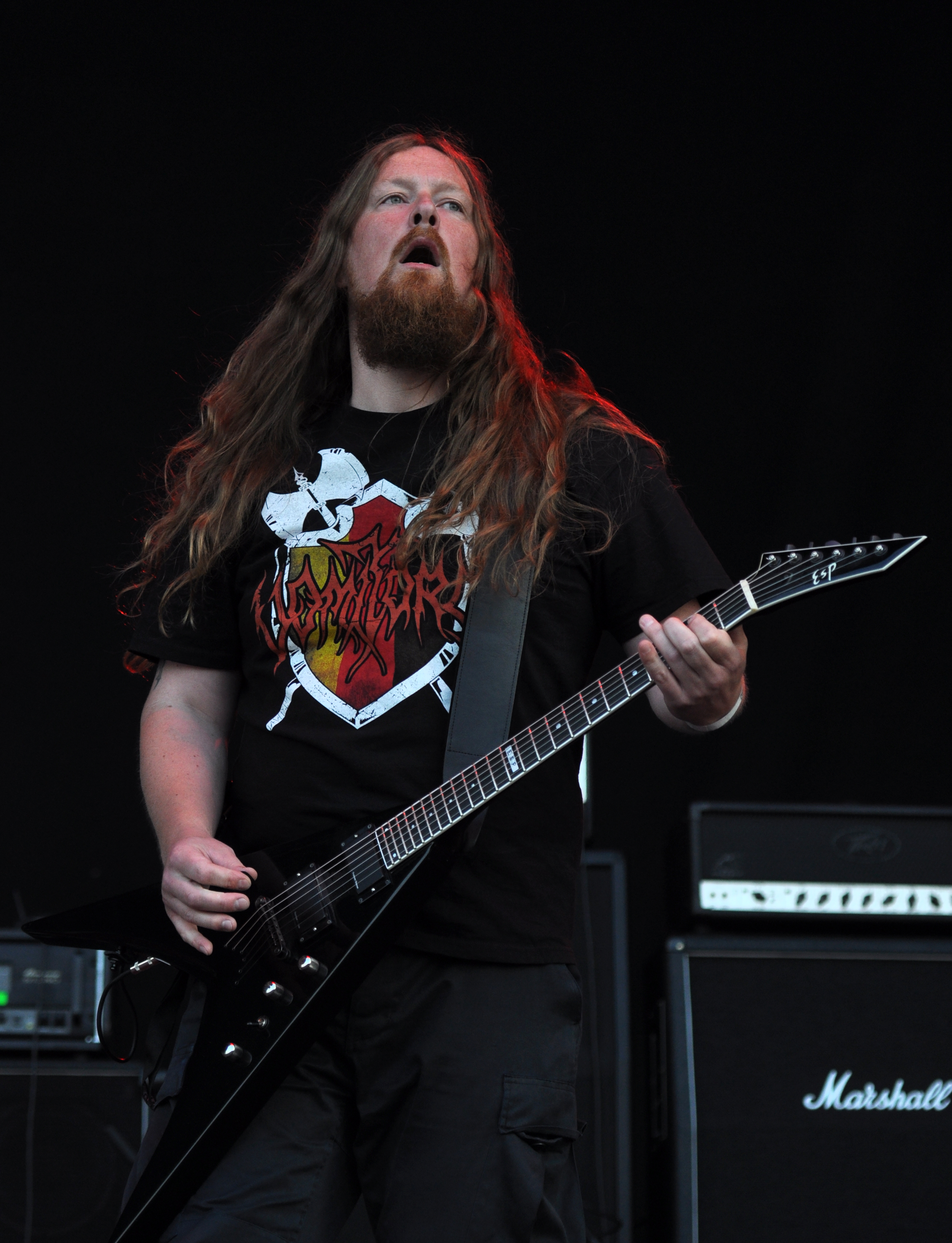 Vomitory at Party.San Metal Open Air 2013